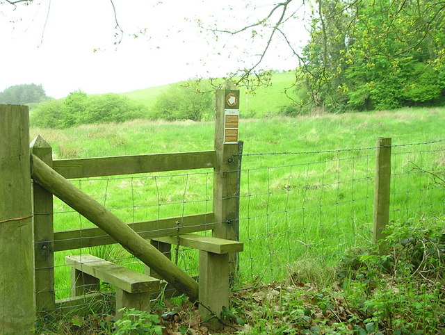 Tir Gofal This is a footpath made available by a farmer under the Tir Gofal scheme, where land owners undertake to manage their land in an environmentally friendly way. The field beyond is probably managed as a wildflower meadow.